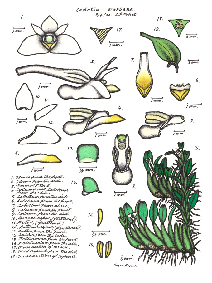 From scan of original illustration by Lewis Roberts